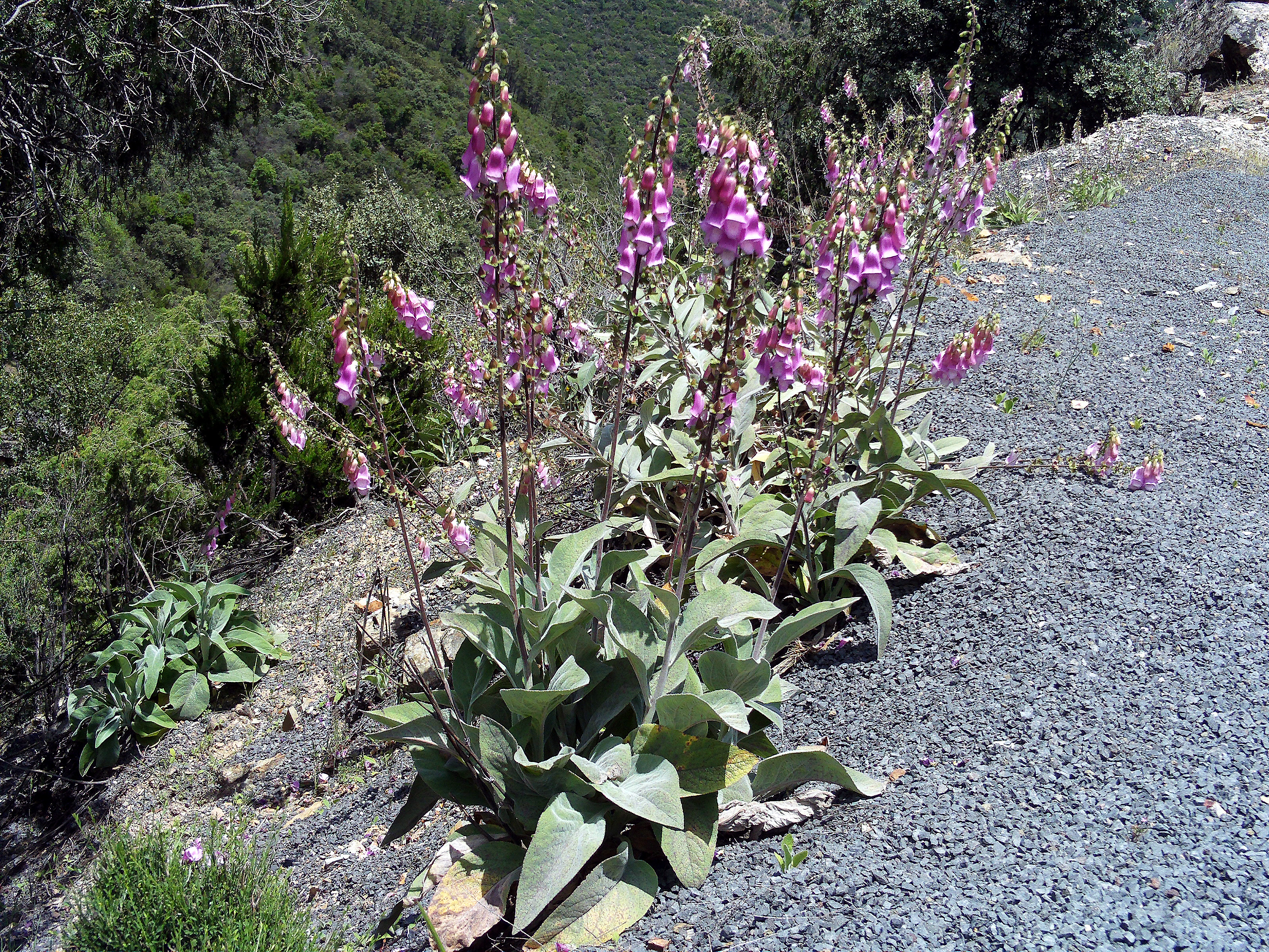 Digitalis mariana Habitus in Sierra Madrona, Spain